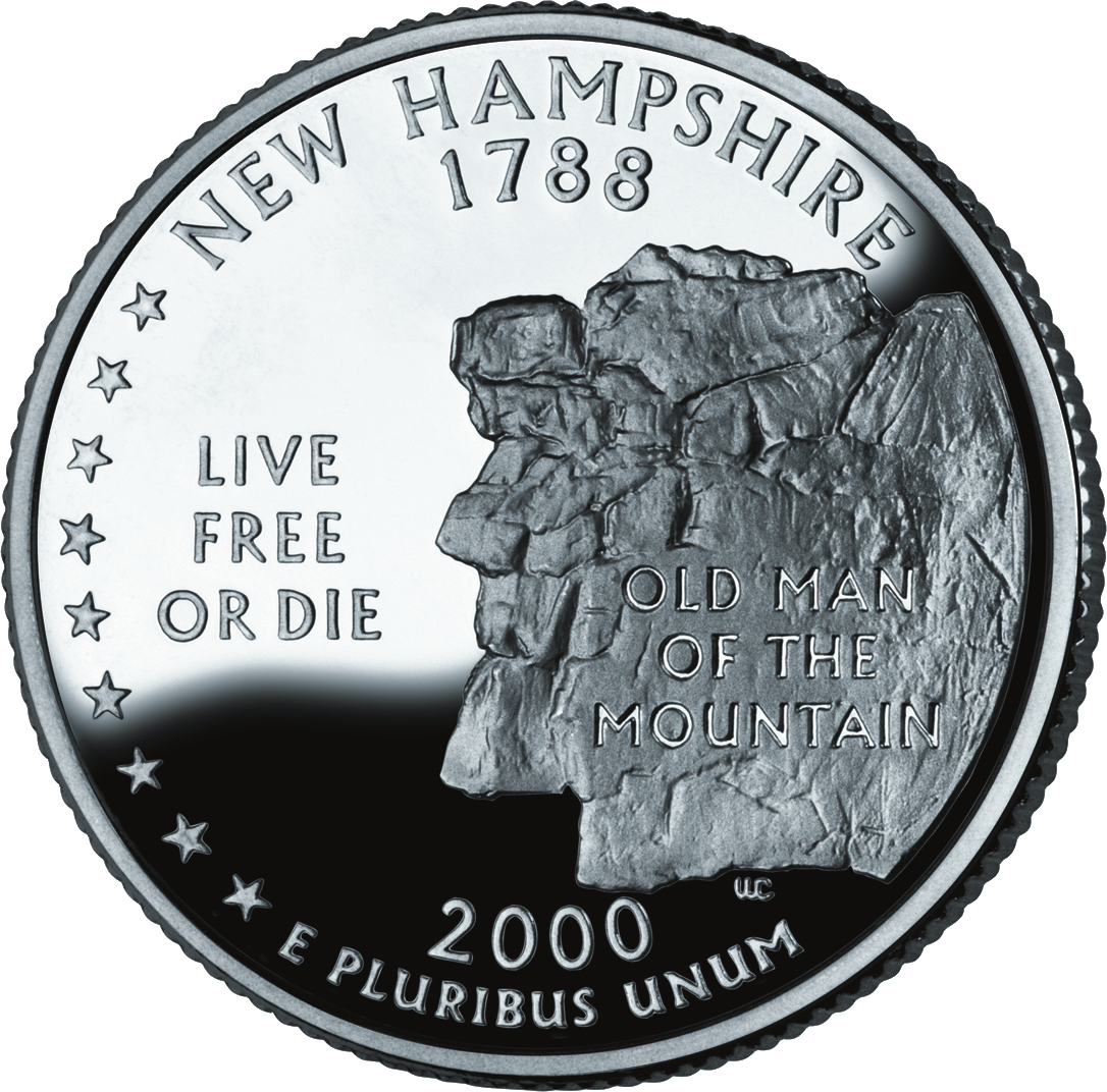 Removed background, cropped, and converted to PNG with Macromedia Fireworks. This image depicts a unit of currency issued by the United States of America. If Fraudulent use of this image is punishable under applicable counterfeiting laws. As listed by the United States Secret Service at money illustrations, the Counterfeit Detection Act of 1992, Public Law 102-550, in Section 411 of Title 31 of the Code of Federal Regulations (31 CFR 411), permits color illustrations of U.S. currency provided:1. The illustration is of a size less than three-fourths or more than one and one-half, in linear dimension, of each part of the item illustrated;2. The illustration is one-sided; and3. All negatives, plates, positives, digitized storage medium, graphic files, magnetic medium, optical storage devices, and any other thing used in the making of the illustration that contain an image of the illustration or any part thereof are destroyed and/or deleted or erased after their final use. Certain coins contain copyrights licensed to the U.S. Mint and owned by third parties or assigned to and owned by the U.S. Mint [1]. For the United States Mint circulating coin design use policy, see [2]; for the policy on the 50 State Quarters, see [3]. Also: COM:ART #Photograph of an old coin found on the Internet